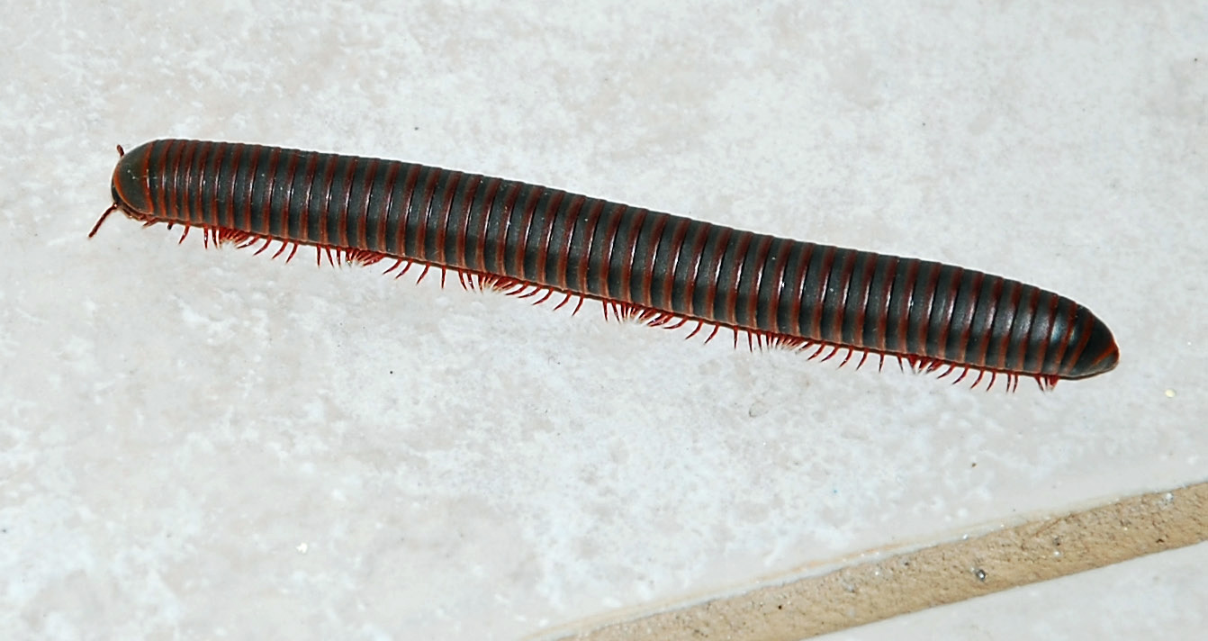 Narceus americanus millipede.